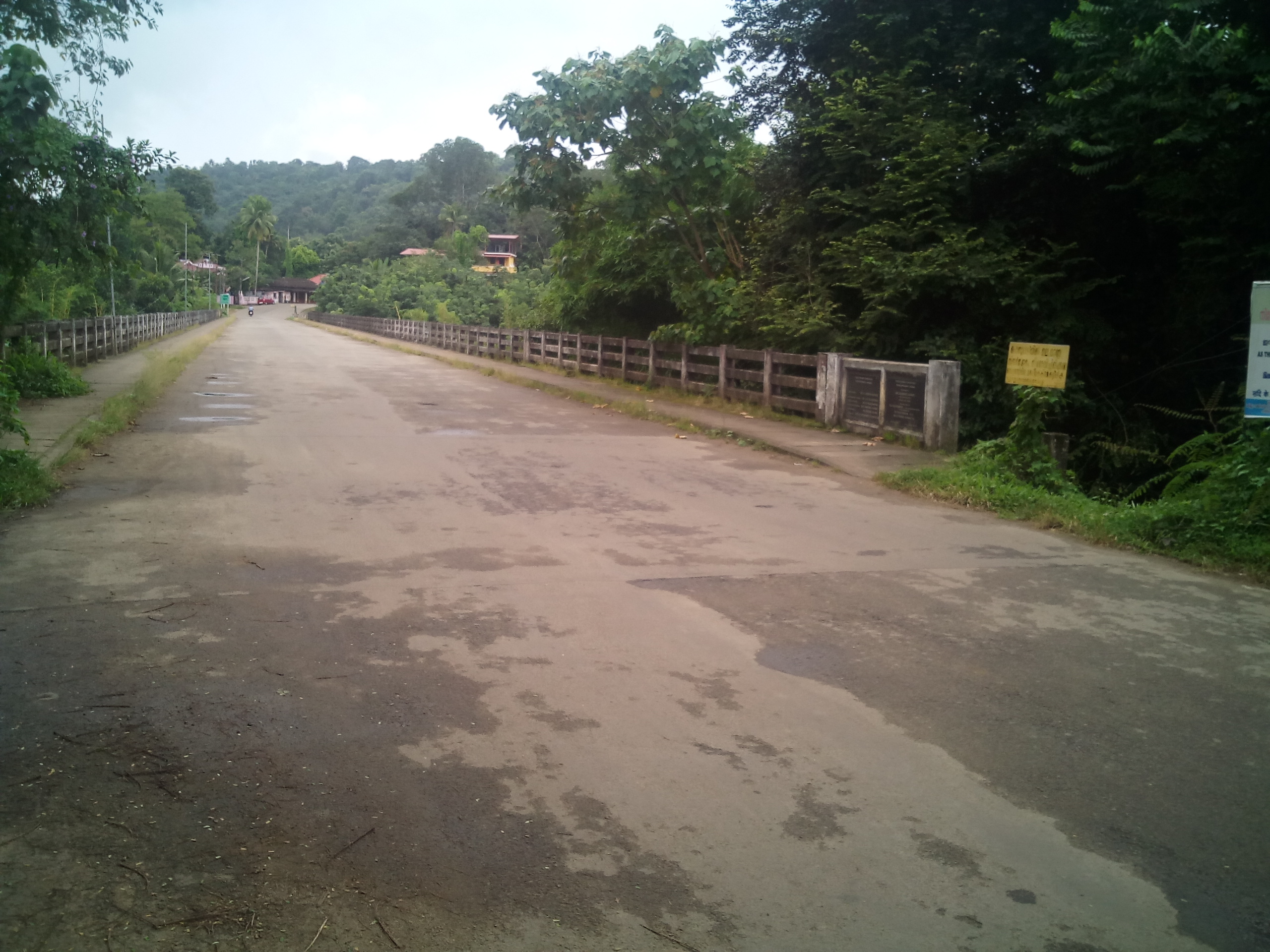 vatasserikara new bridge another view